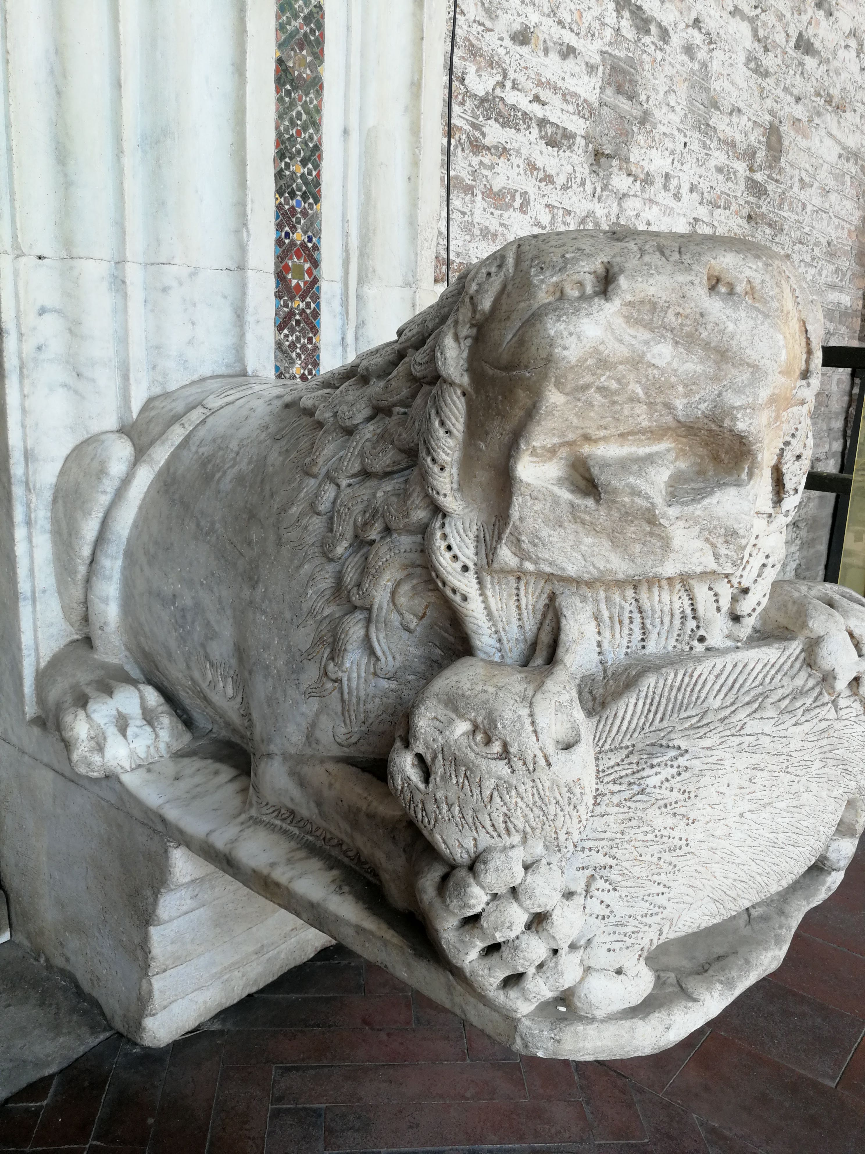 Lion sculpture